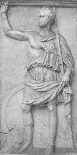 The relief stele of Kleitor supposedely depicting the Achaean statesman and historian Polybius, 2nd century BC, Hellenistic Greek artwork from the Peloponnese. Dimensions are as follows: height of the stele, 2.18 m (7.2 ft); width of the stele, 1.11 m (3.6 ft); height of the carved figure of Polybios, 1.96 m (6.4 ft). The information above was taken from pages 281-282 of John Ma's Statues and Cities: Honorific Portraits and Civic Identity in the Hellenistic World (2013, Oxford University Press).